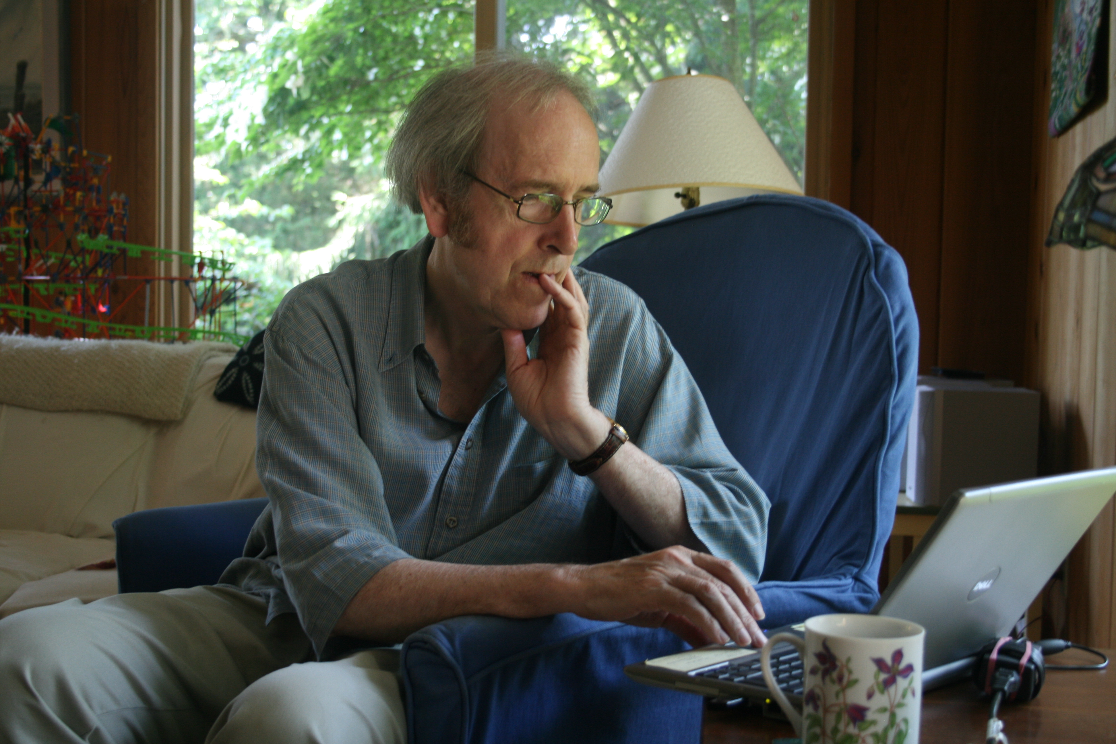 Prof. Stuart Cull-Candy